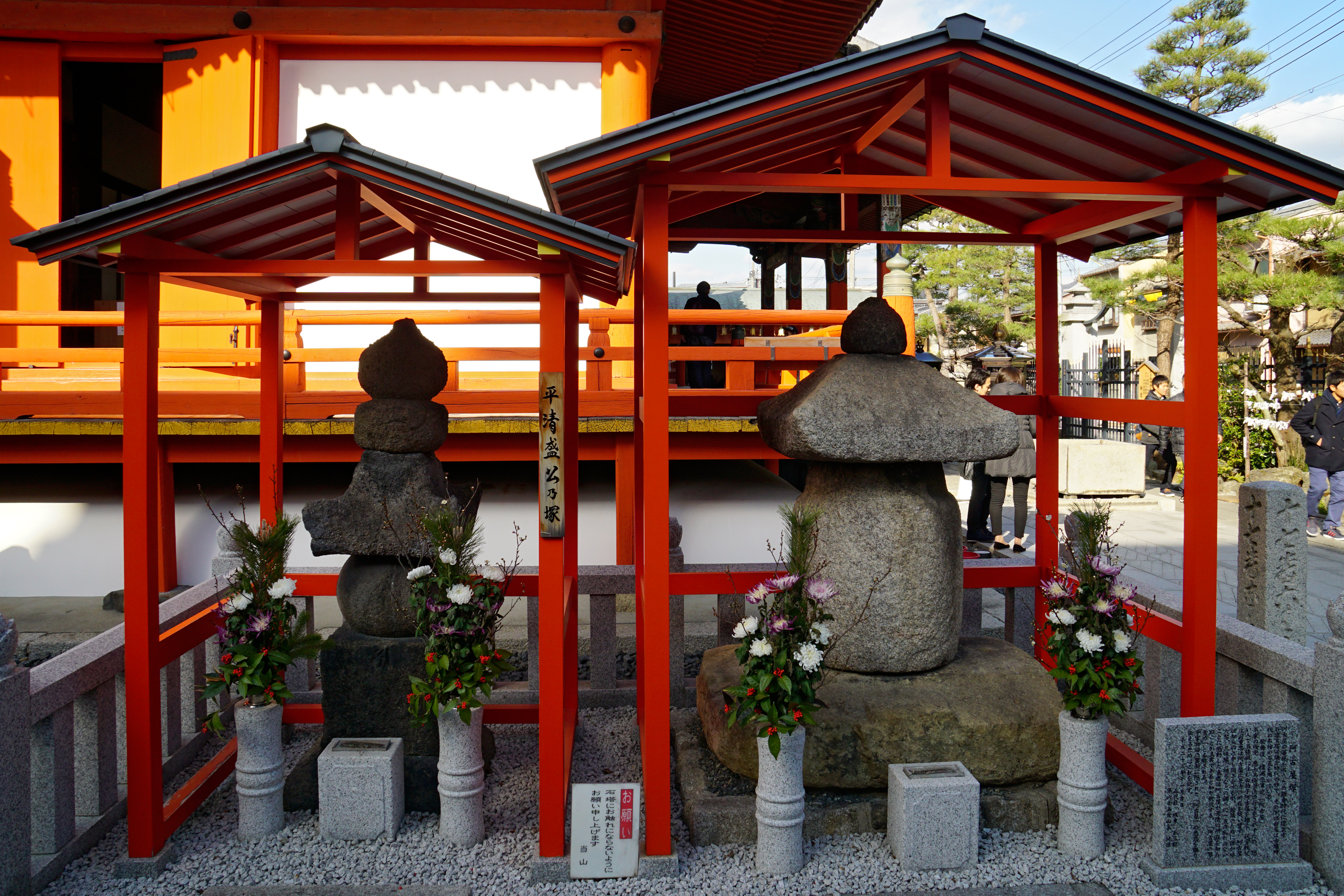 Rokuharamitsu-ji, Higashiyama-ku, Kyoto, Kyoto prefecture, Japan.